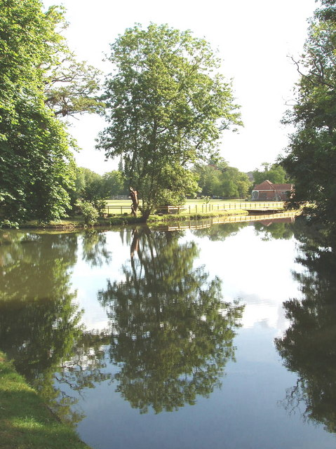 Tree reflected in the Cherwell, Oxford. View from the path round Christ Church Meadow, looking towards the playing field of Magdalen College School.